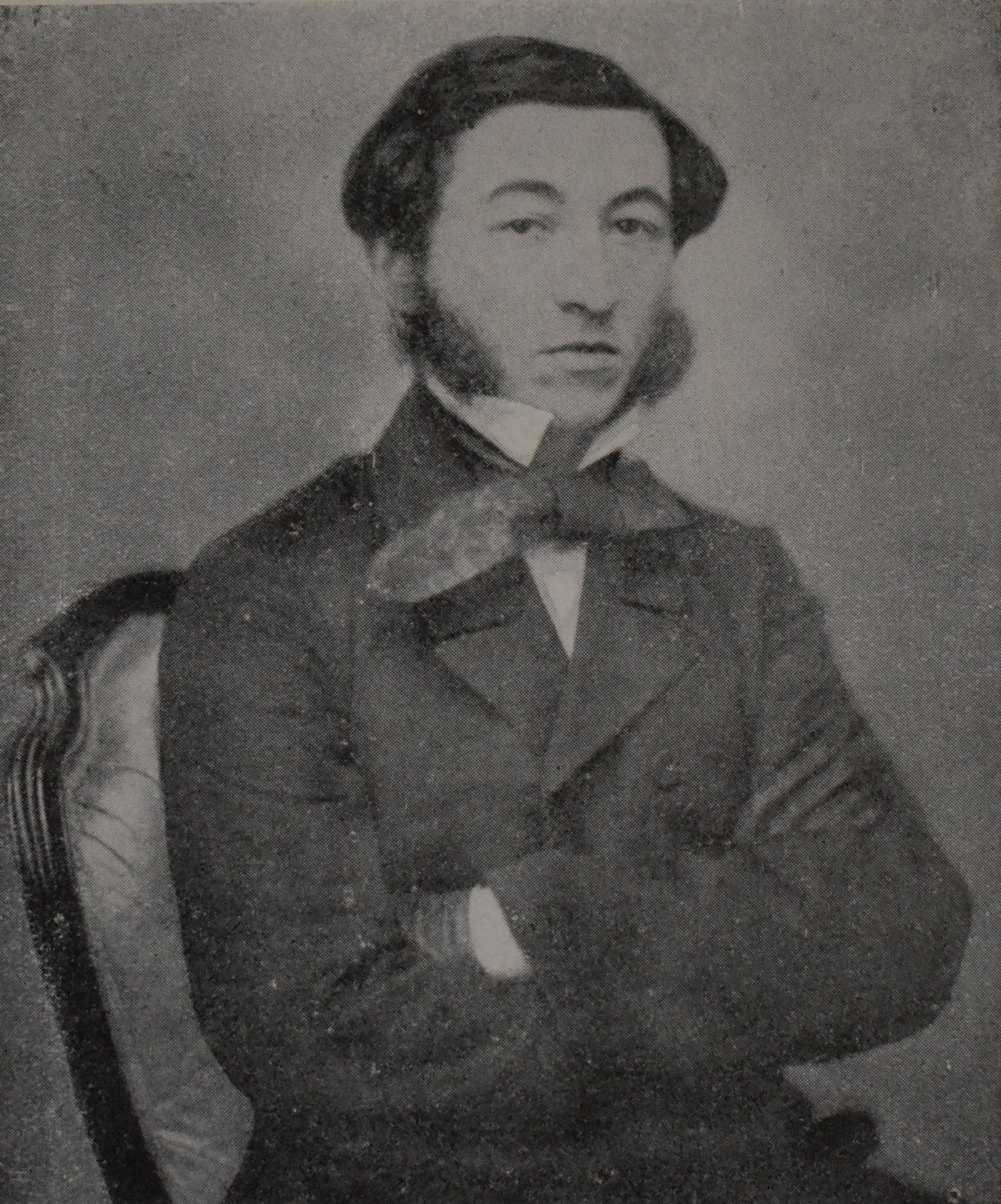 Mikayel Nalbandian